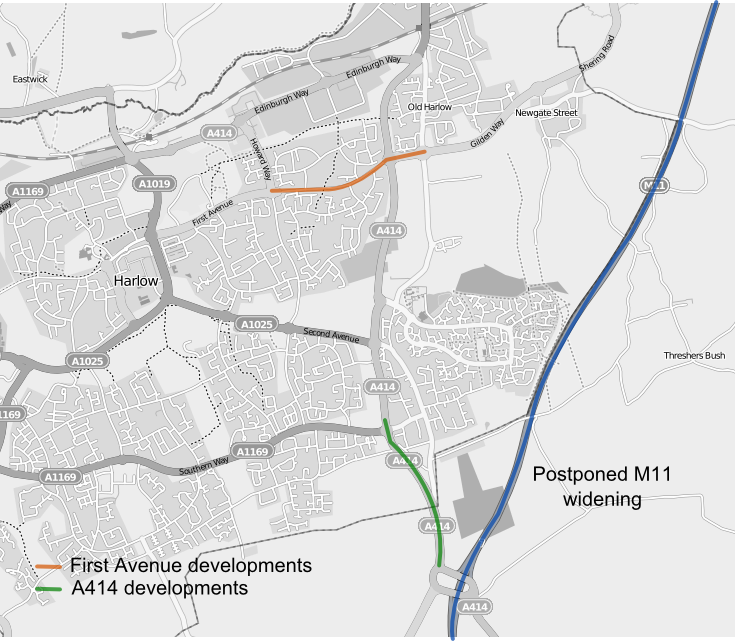 A map showing some infrastructure developments in and around Harlow.